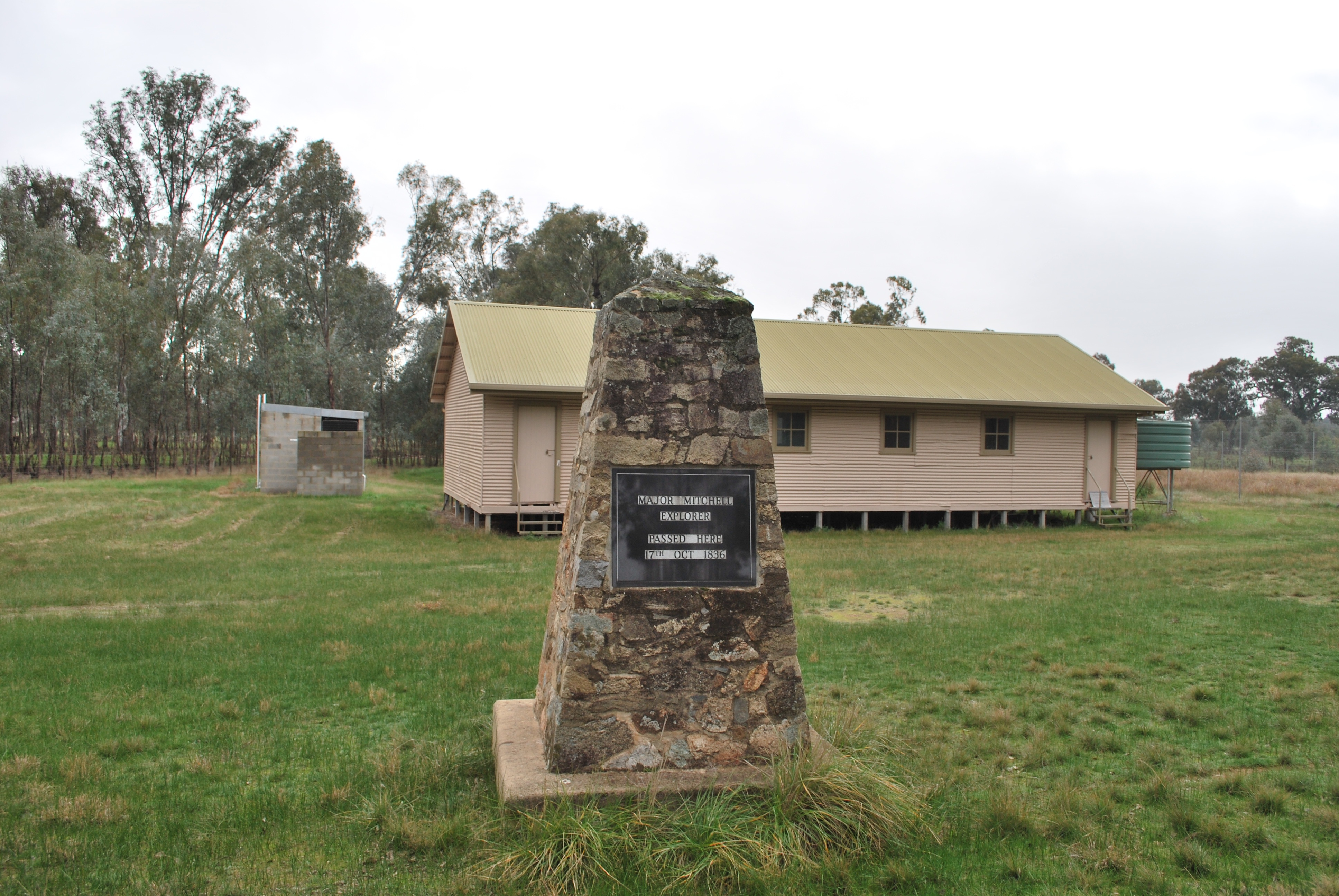 Memorial of the exploration of Major Thomas Mitchell at Gooramadda, Victoria